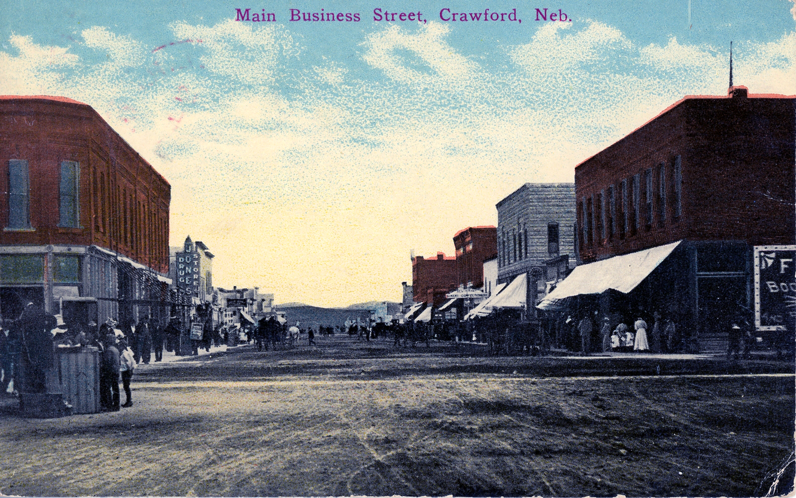 C. 1910 postcard view of Crawford Nebraska, looking south on Second Street from Main. A number on the back of the postcard reads "11959". It is postmarked July 1912. No author is stated on the image. The photo was taken at earliest in 1907, the year Kennedy building (the last brick building on the right side of the street) was constructed, and at latest 1912, the year the postcard is postmarked. This photo depicts a much different Crawford than exists today. The city has transformed from a booming "saloon element" town to quiet, less populous rural community. However, it is notable that all of the two-story brick buildings depicted are still standing, although in varying states of repair. As the postcard this image was scanned from was obviously published before 1978 in the United States and does not have a copyright notice printed anywhere on it, it is currently in the public domain and is therefore eligible for inclusion on Wikimedia Commons.